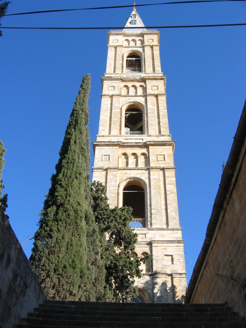 Jerusalem, Mount of Olives, lonely bell tower that belongs to no church.